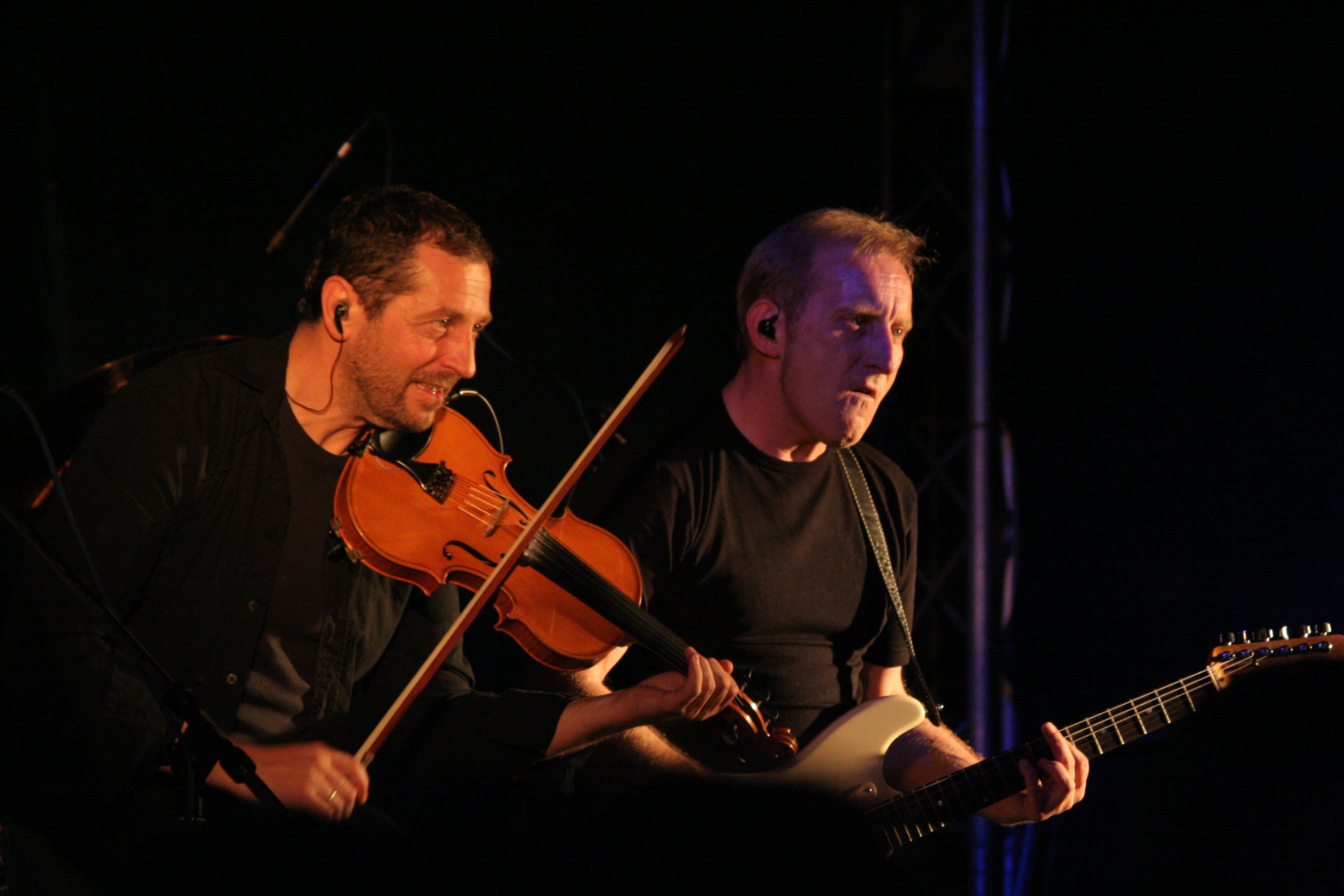 Karel Holas and František Černý, Čechomor concert